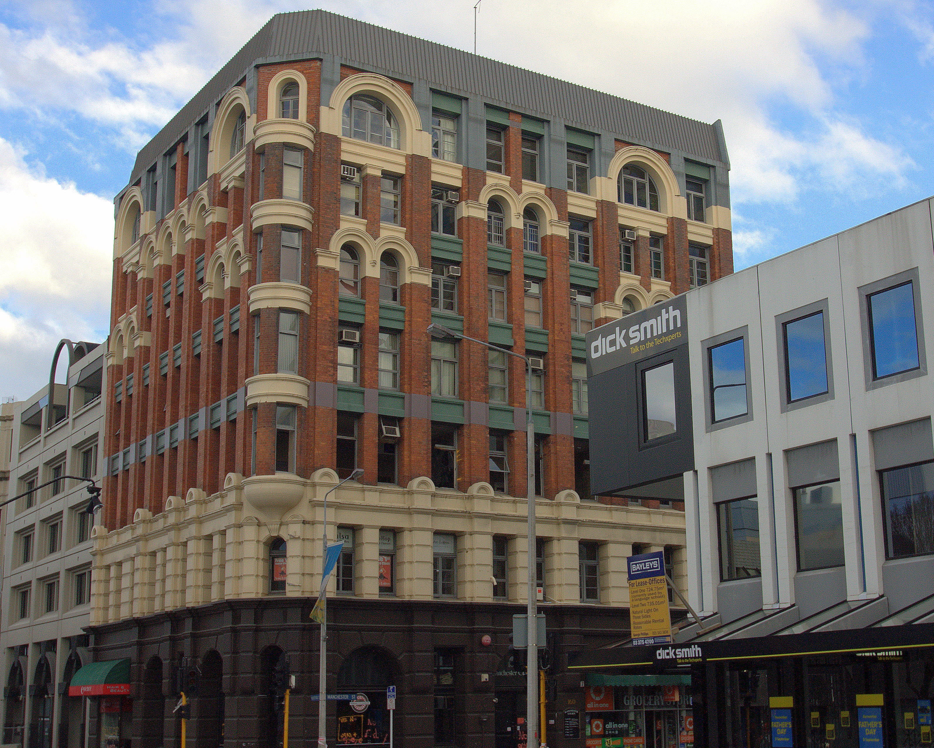 Manchester Courts, Christchurch. Still no decision on this beautiful building ... edit 10/10/10: it is going to be demolished - I heard the engineers are too scared to go inside now .....